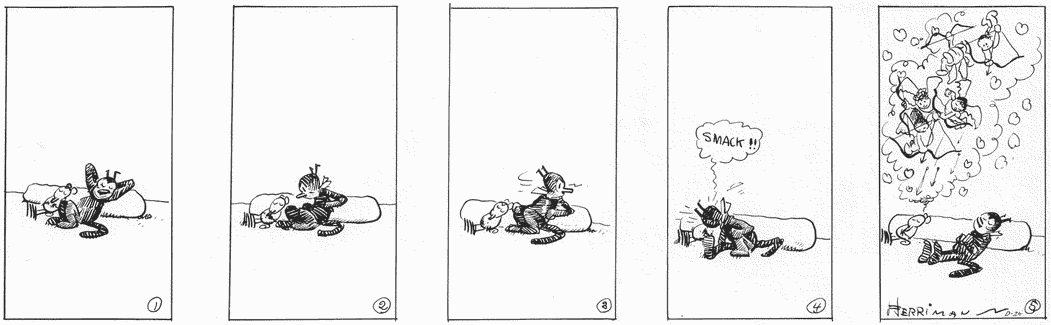 Daily Krazy Kat comic strip by George Herriman for December 24, 1917. Krazy kisses a sleeping Ignatz, who then dreams of angels.